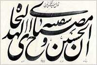 nastaliq font